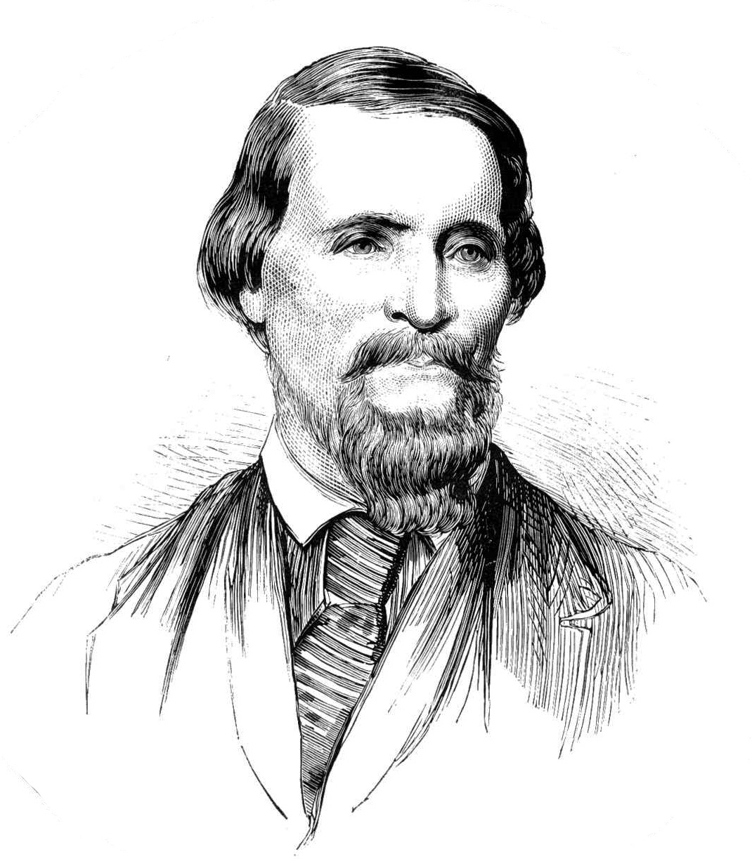 Portrait of Joseph Thomas Sullivan (1815–1876 or later), a member of the Burgess gang committed the 1866 Maungatapu murders